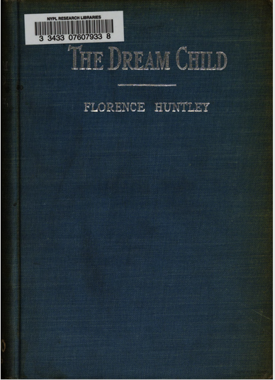 "The Dream Child" by Florence Chance Huntley